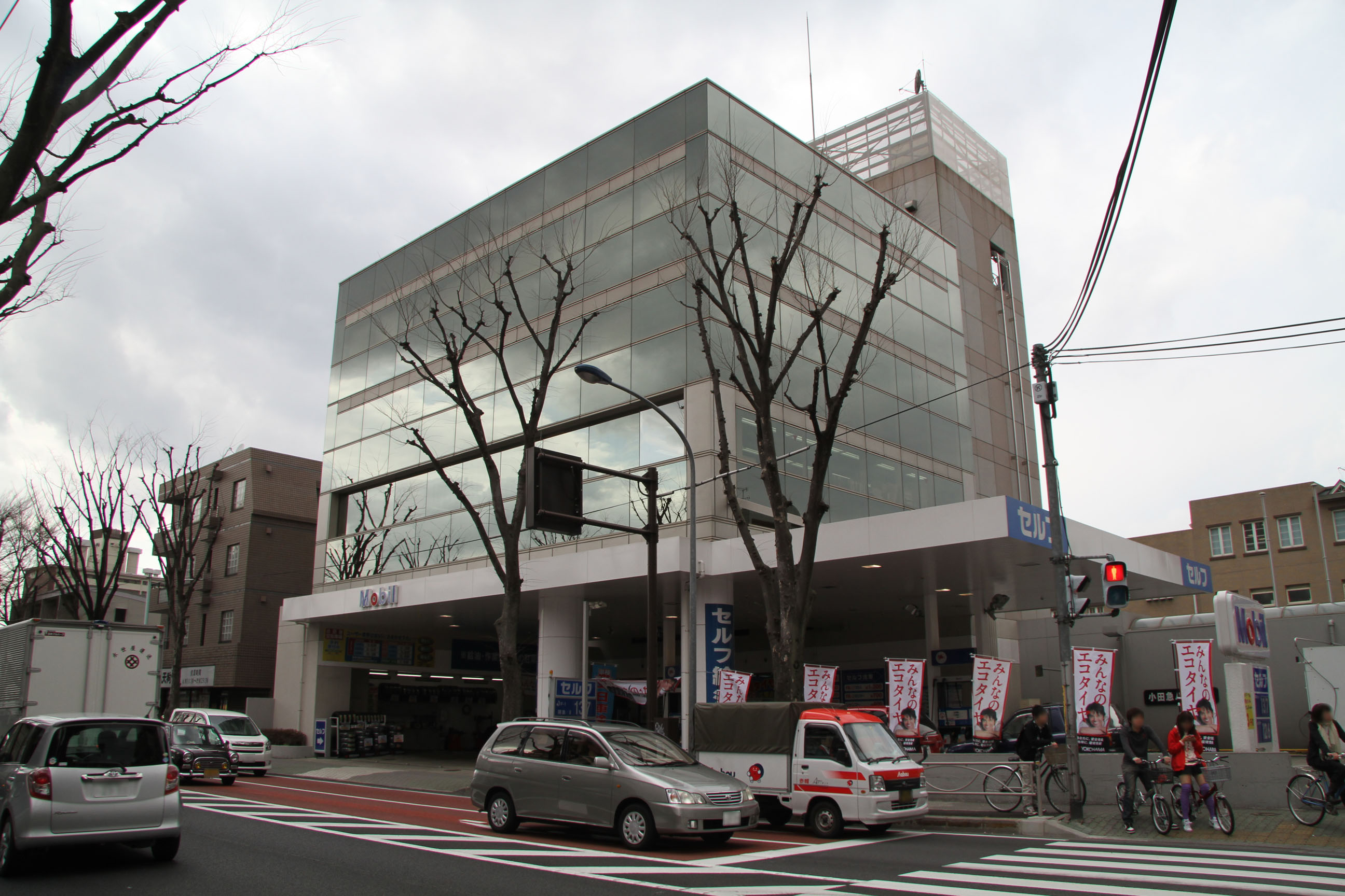 Odakyu Bus Headquarters, Chofu, Tokyo, Japan. Odakyu Bus also operates Mobil petrol stations.